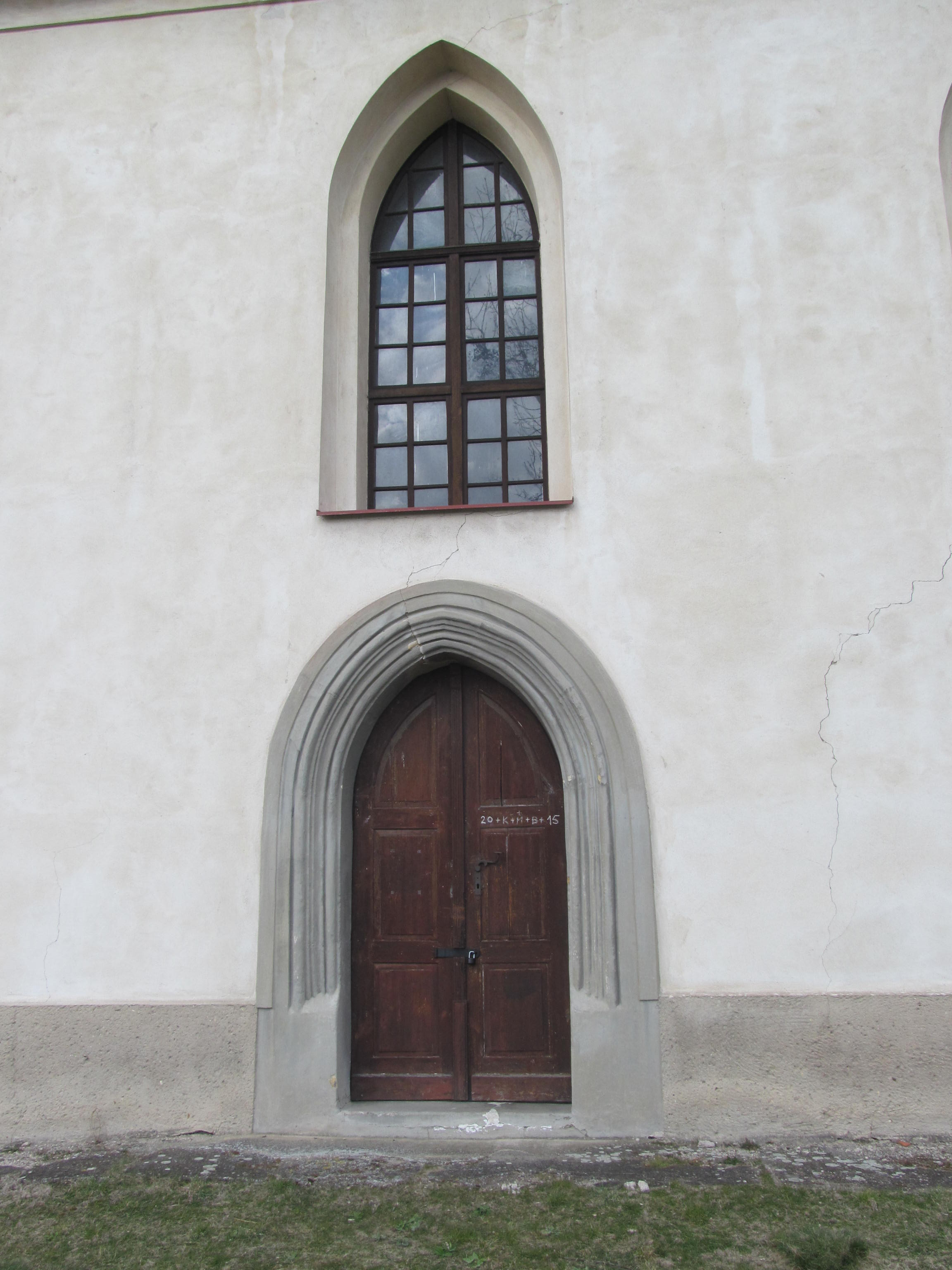 Portal of the church of Saint John the Baptist in Klapý